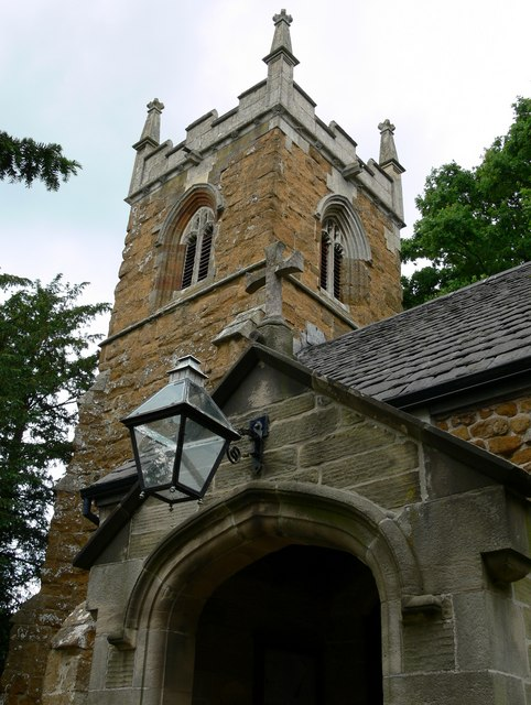 South porch gable and west tower of All Saints' parish church, Keyham, Leicestershire, seen from the southeast